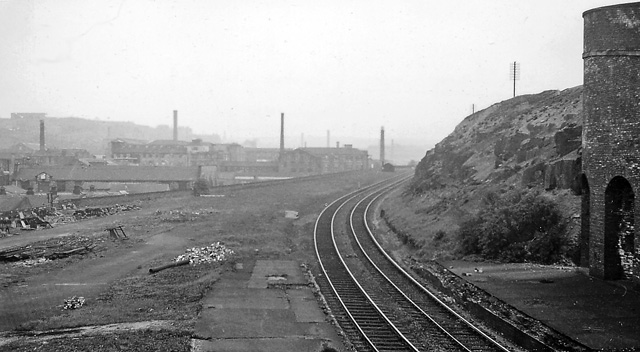 Site of Batley Carr (GN) Station. View northward, towards Batley, Bradford and Leeds; ex-GN line from Wakefield via Ossett and Dewsbury to Batley, Bradford and Leeds curving ahead, the ex-LNW (Manchester - Leeds) line through Dewsbury (Wellington Road) being up above on the right. Batley Carr station was closed on 2/3/50, but the ex-GN line in the picture lasted until 15/2/65, passenger services having ceased on 7/9/64. See also Batley at SE2523 : Batley (ex-GN) Station.